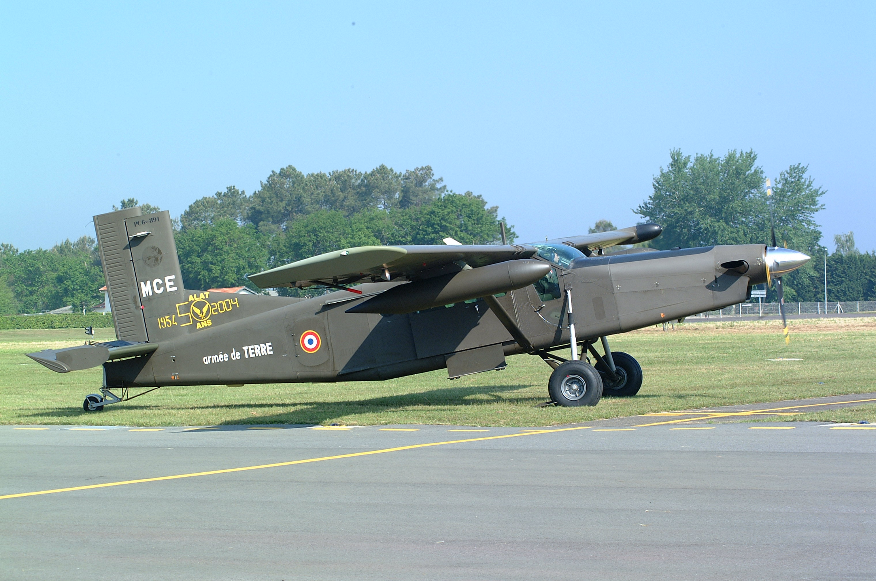 Wearing Special markings for fifty years of the French Army. Used for parachute displays.